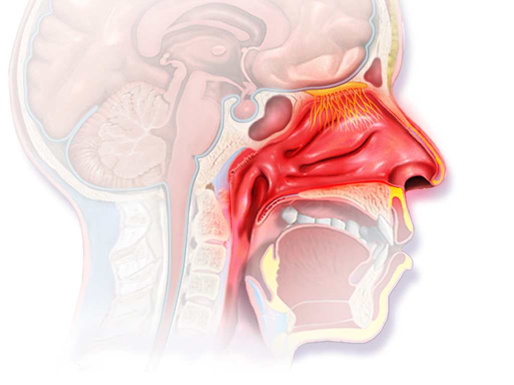 Allergic Rhinitis. See a full animation of this medical topic